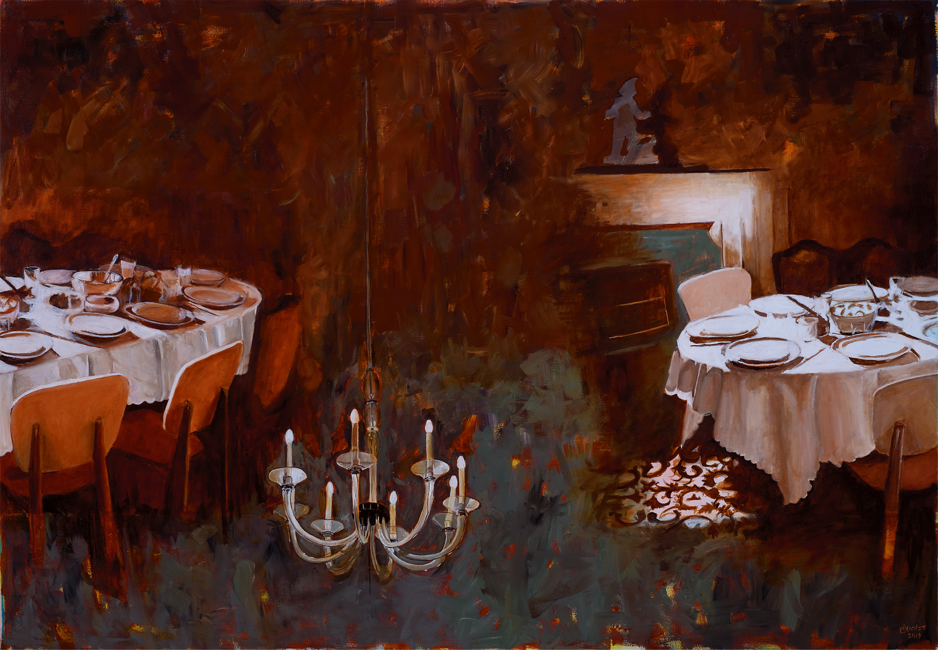 Phantom, oil on canvas, solo exhibition Artist House Tel-Aviv, photo: Avi Amsalem